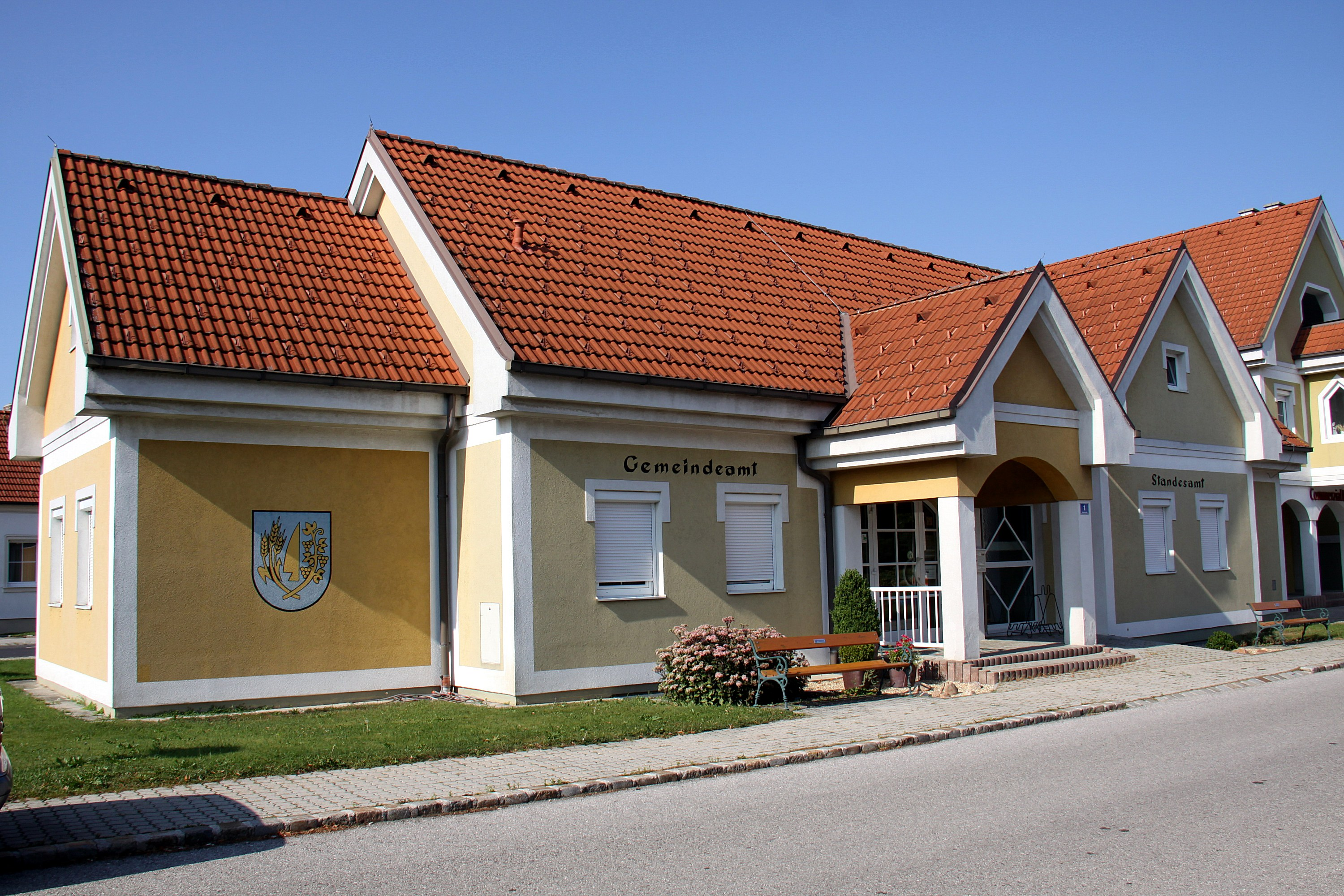 Municipal office - Loipersbach im Burgenland Object location47° 41′ 49.51″ N, 16° 28′ 50.05″ E